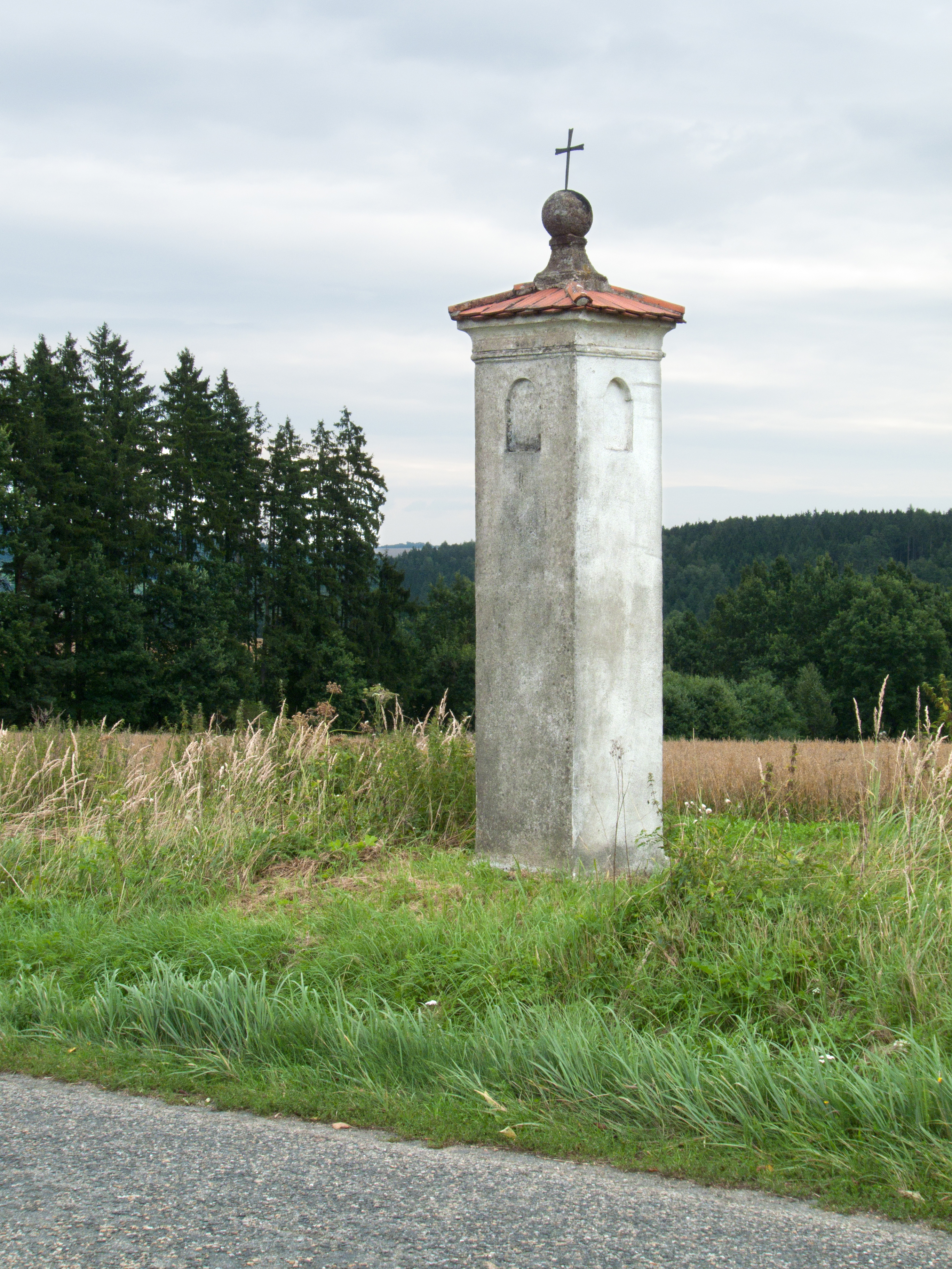 Wayside cross at the road between the villages of Bohunice and Neznašov, České Budějovice District, Czech Republic